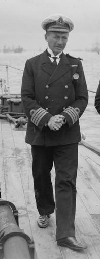 The Royal Navy on the Home Front, 1914-1918 Captain Barry Domvile on deck.